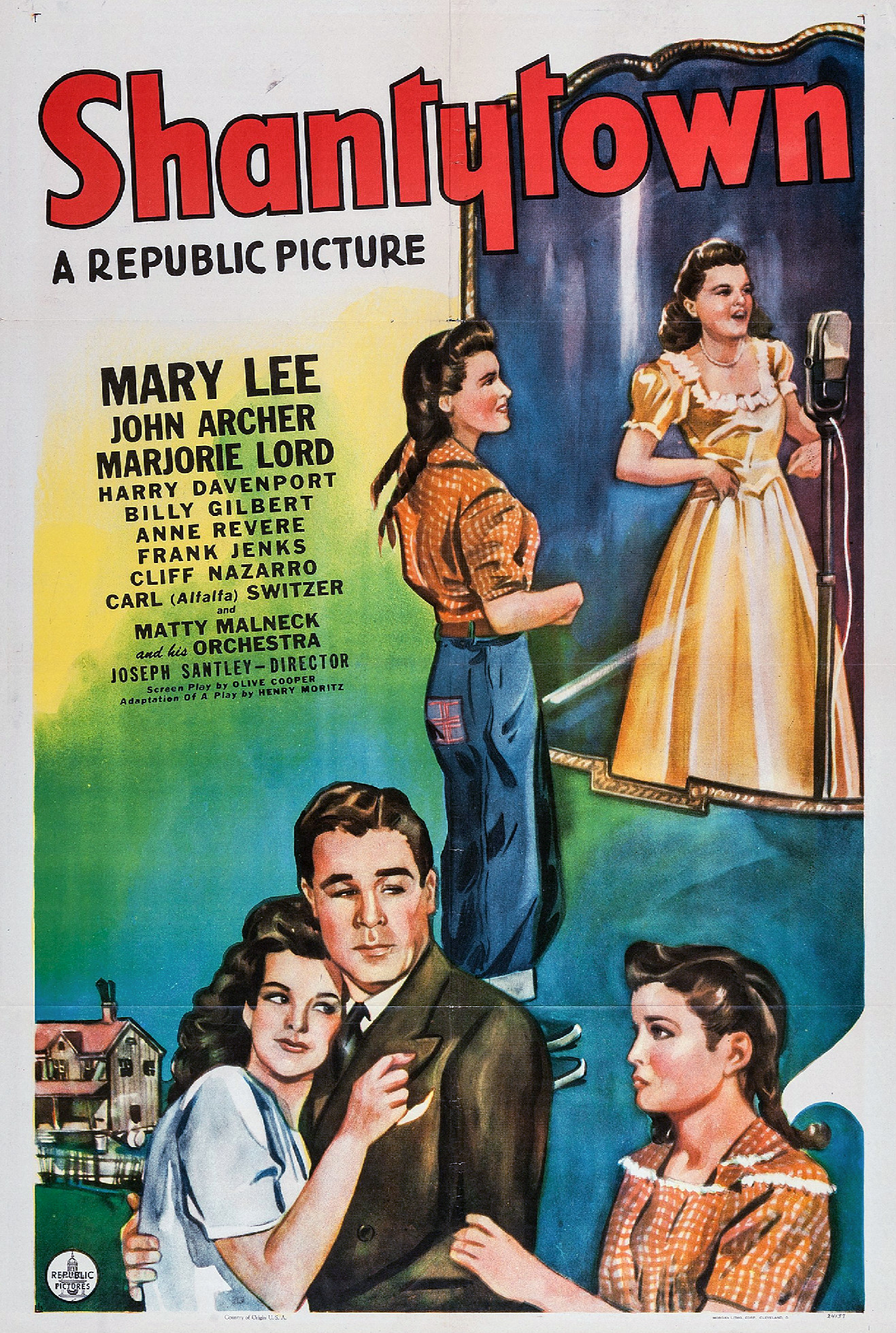 Poster for the 1943 film Shantytown. There are no copyright marks. At bottom is Country of origin USA, Morgan Litho Corp. Cleveland. O.--they printed the poster--24137.